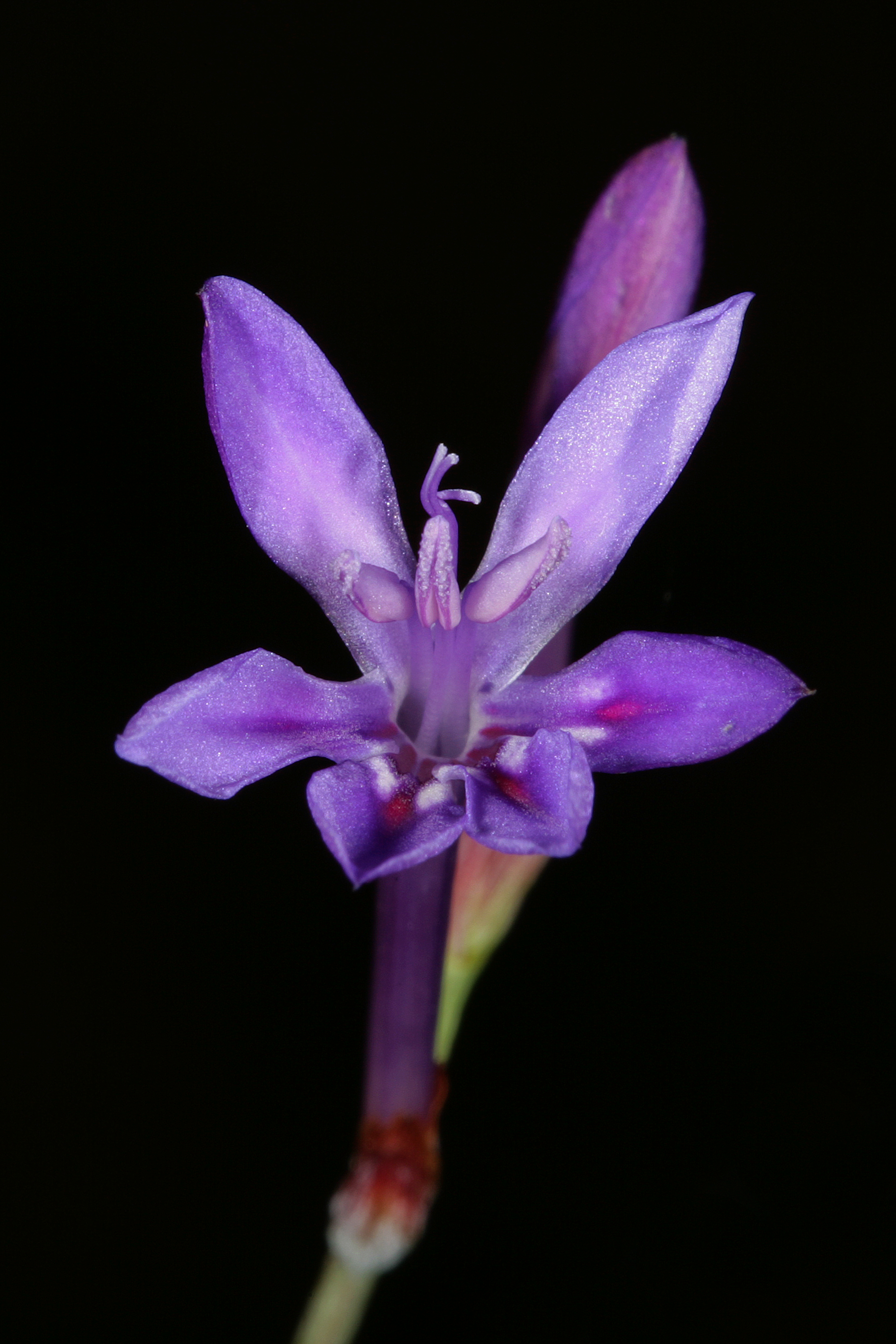 Afrosolen sandersonii subsp. sandersonii, flower and flower bud; Bobbejaansberg Nature Reserve, Cullinan, Gauteng, South Africa